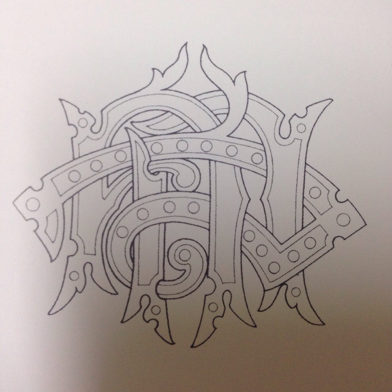 The official seal of HRH Prince Suprayok-Kasem, a former Thai Minister of Finance, used in official documents throughout his lifetime.